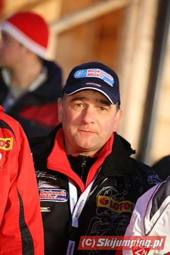 FIS Ski Jumping World Cup in Zakopane 2008 Canceled saturday competition Zbigniew Klimowski